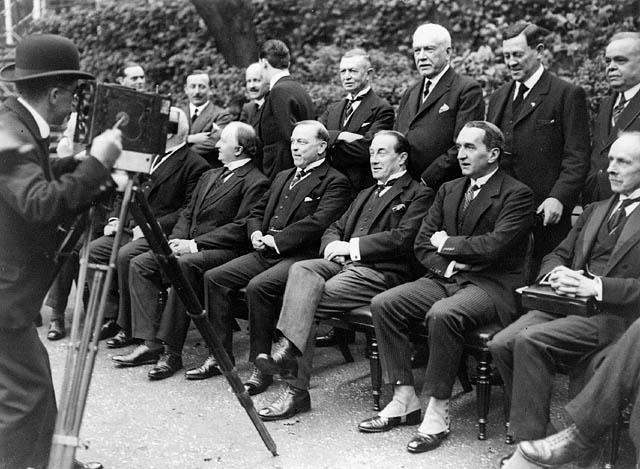 Group photo of delegates attending the Imperial Conference, 10 Downing Street